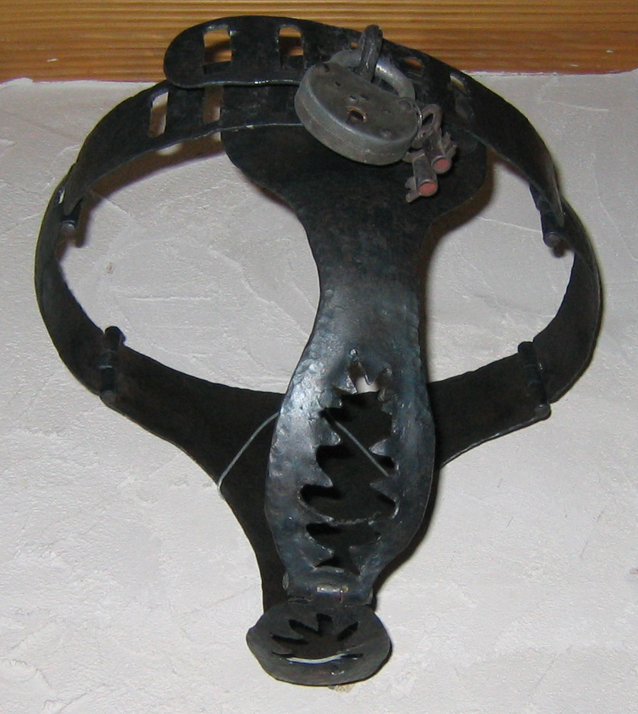 Chastity belt at the former torture museum in Freiburg im Breisgau (closed since autumn 2006). (Note that no "old" chastity belt specimens in European museums have been proven to date from before the late 16th century or 17th century, while some are outright 19th century forgeries.)